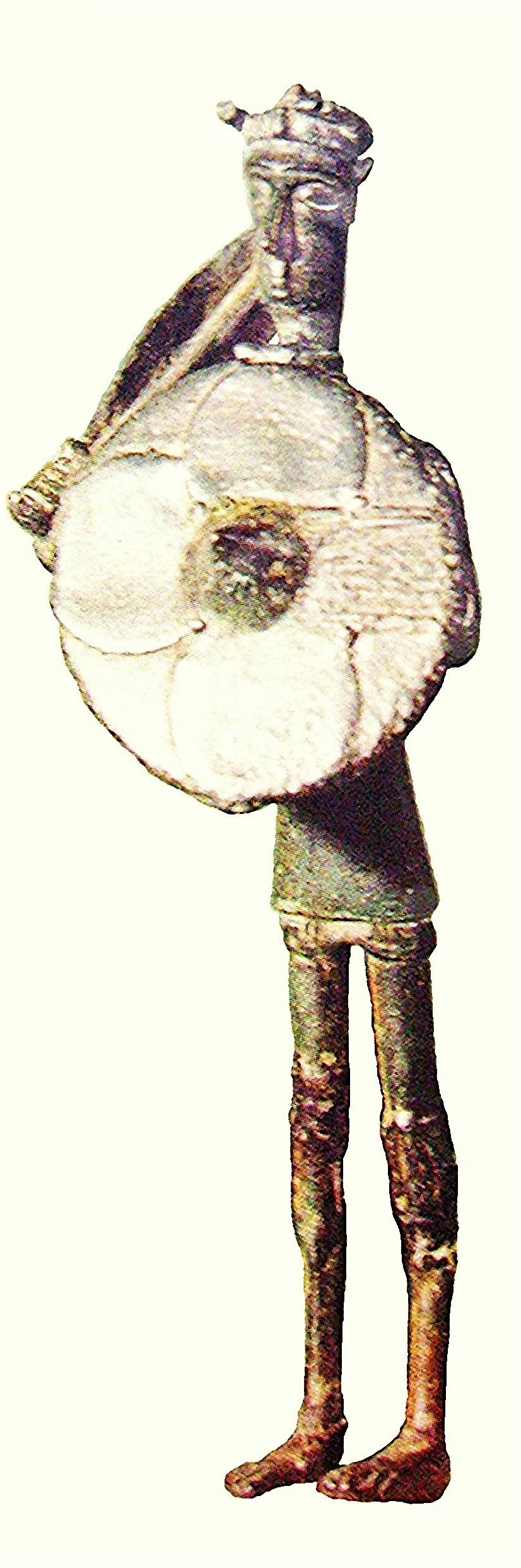 Sardinia - Nuragic warrior- Cagliari - Museo Archeologico Nazionale